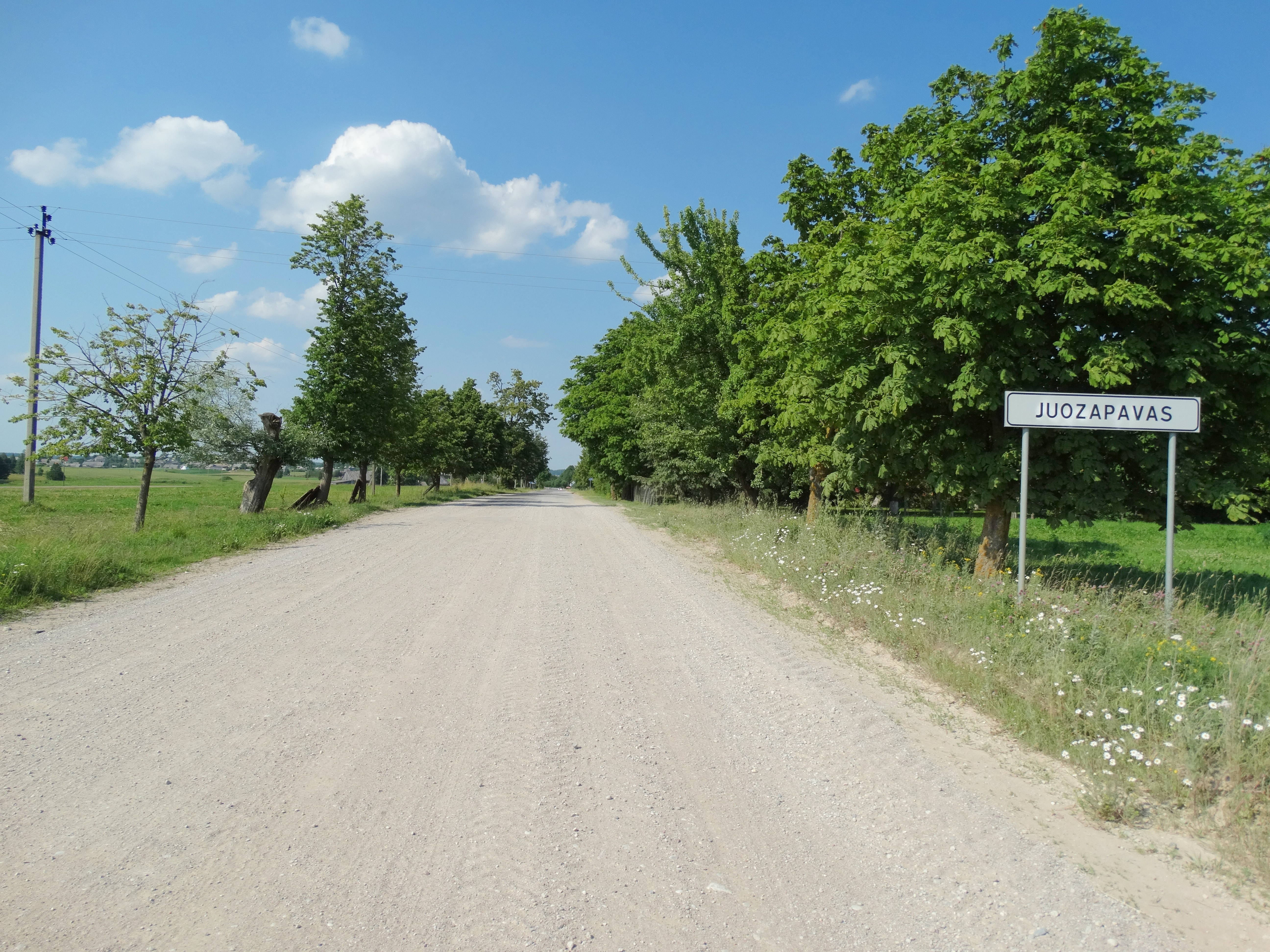 Juozapavas, Telšiai District, Lithuania